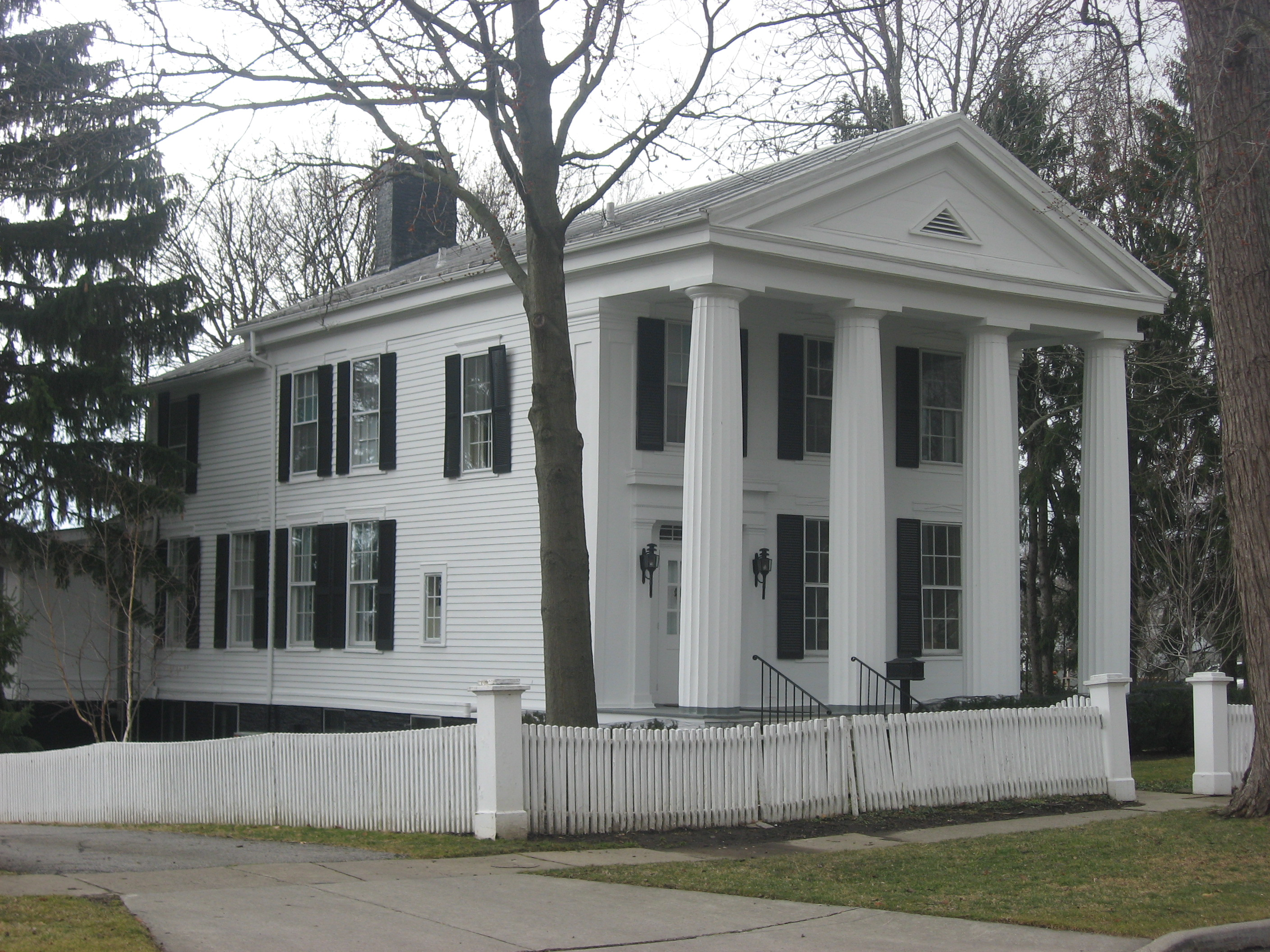 Front and eastern side of the House of Four Pillars, located at 322 E. Broadway in Maumee, Ohio, United States. Built in 1835, it is listed on the National Register of Historic Places.